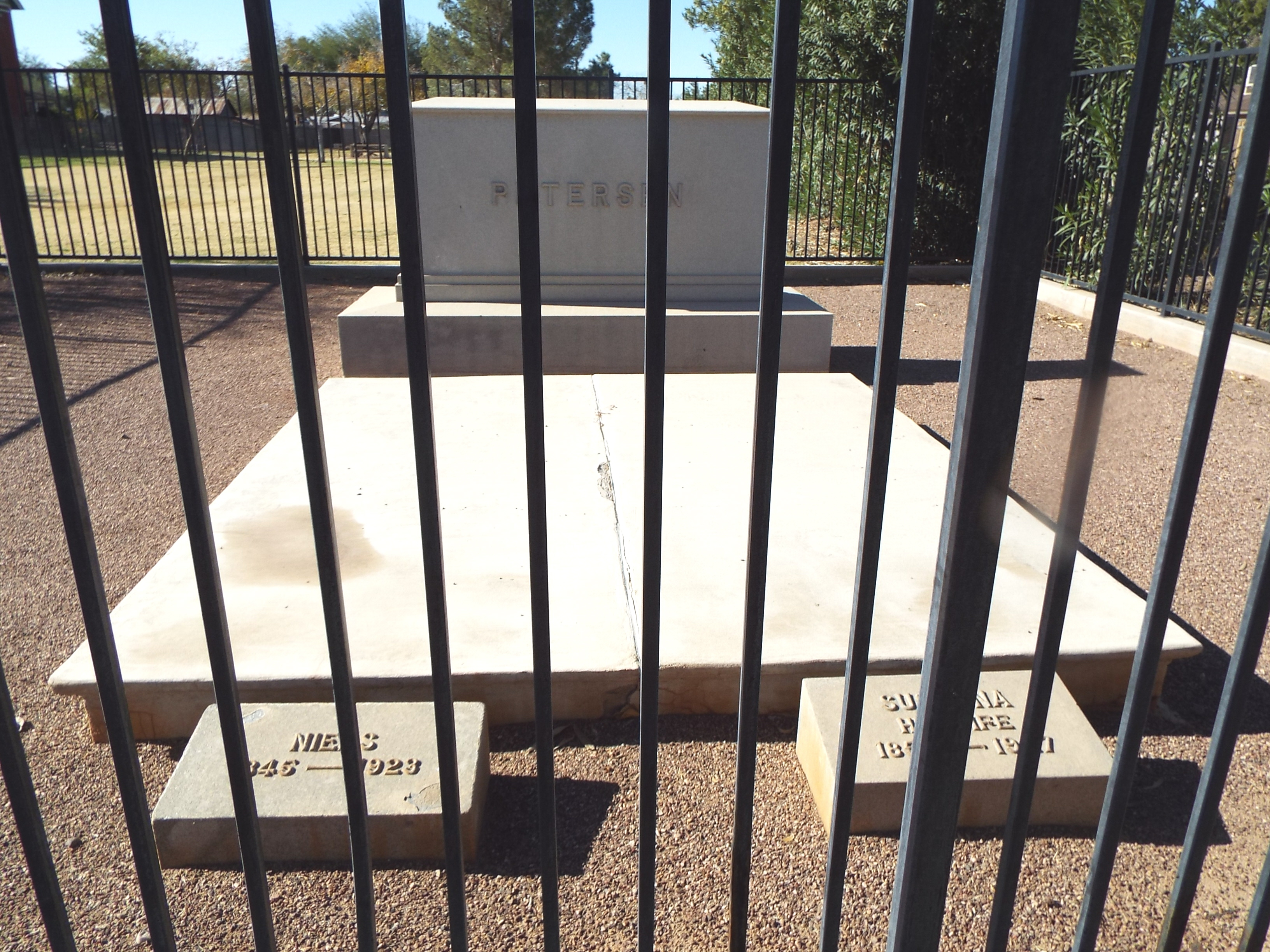 Graves of Niels and Susanna Petersen located within the property which they once owned. The Property located at 1414 Southern Blvd. in Tempe, Az. is listed on the National Register of Historic Places.